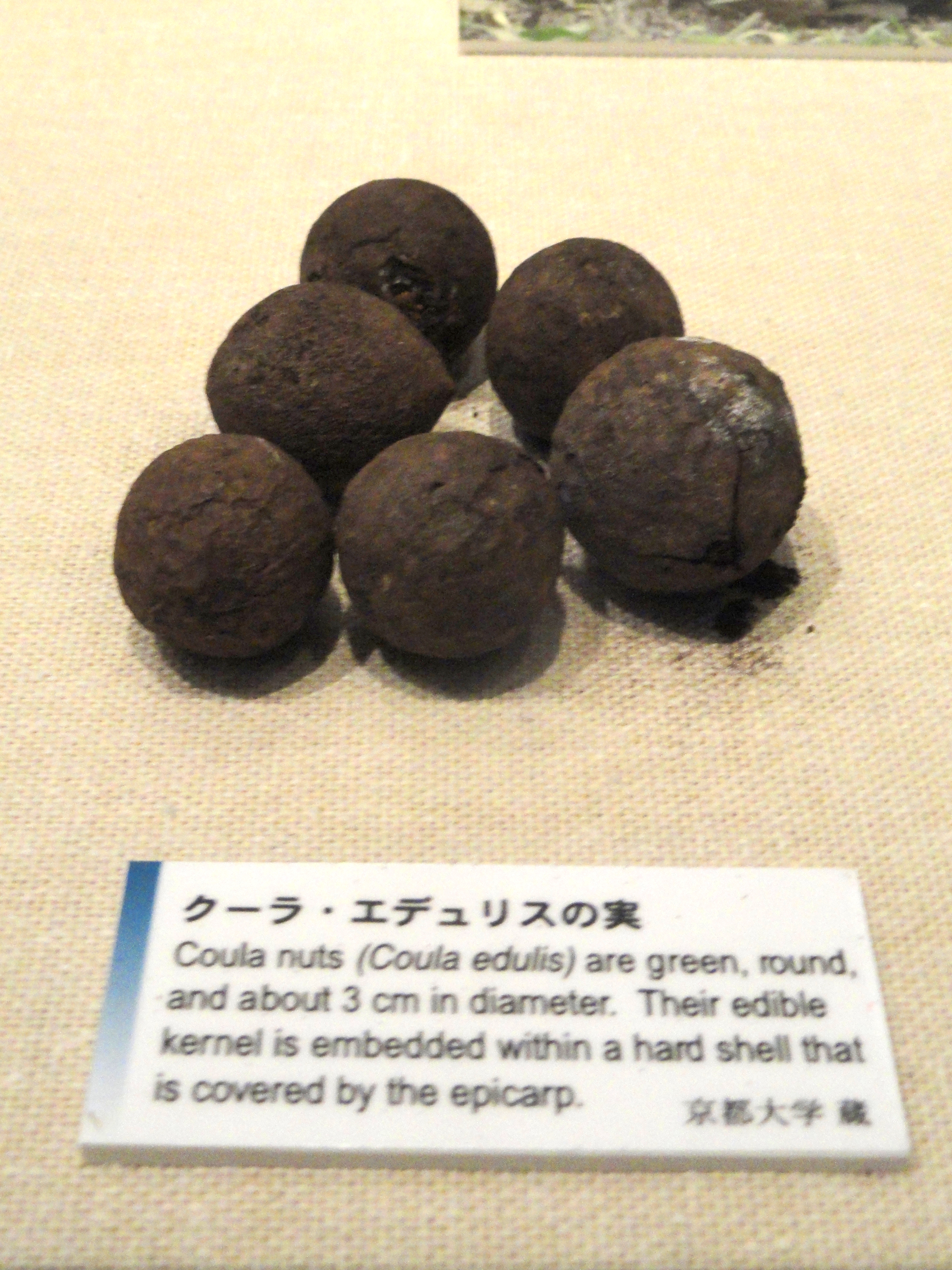 Exhibit in the Kyoto University Museum, Kyoto, Japan.